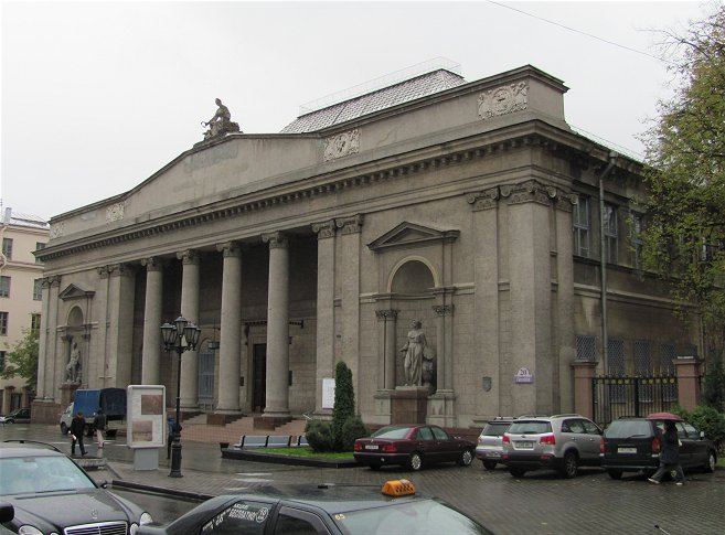 Main building of the National Art Museum of the Republic of Belarus, Ul. Lenina 20, Minsk, Belarus.